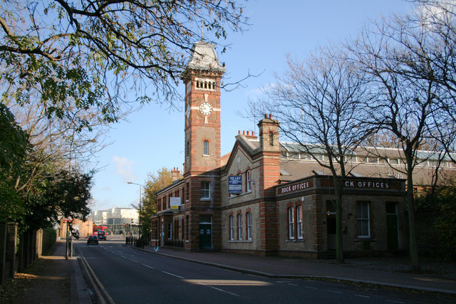 Dock Offices, Surrey Docks The Surrey Docks were once very big business, and appropriately the management had these extensive offices built in the late Victorian years. The Surrey Docks have now been closed for many years, but the building has been used, inter alia, by the London Docklands Development Consortium. They have now moved out, and the splendid building is now for sale or lease. Let us hope that some worthy use can be found for it which will ensure its preservation for posterity. It is not a listed building but certainly should be.